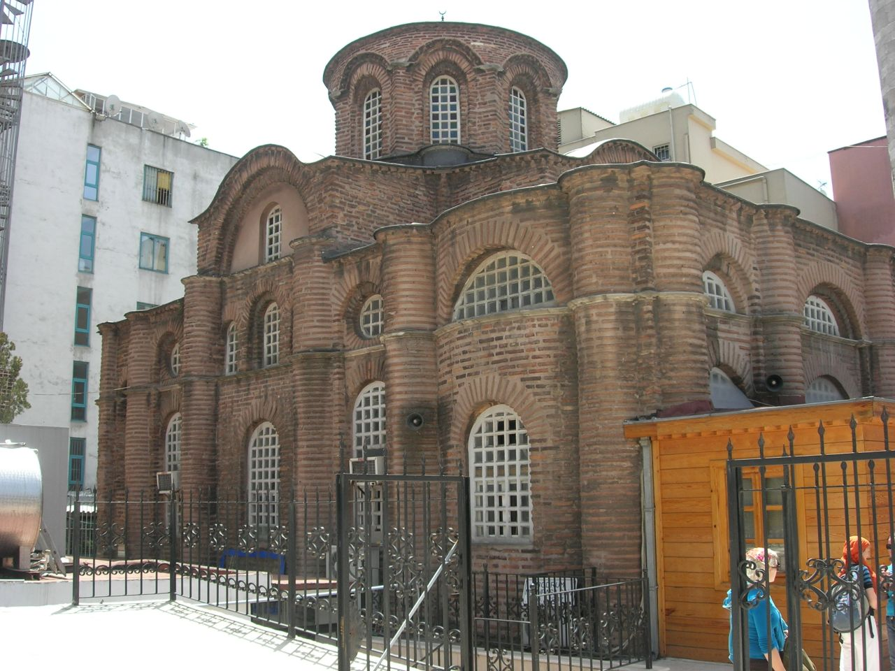 The former Church of the Myrelaion( today mosque of Bodrum) in Istanbul viewed from NW